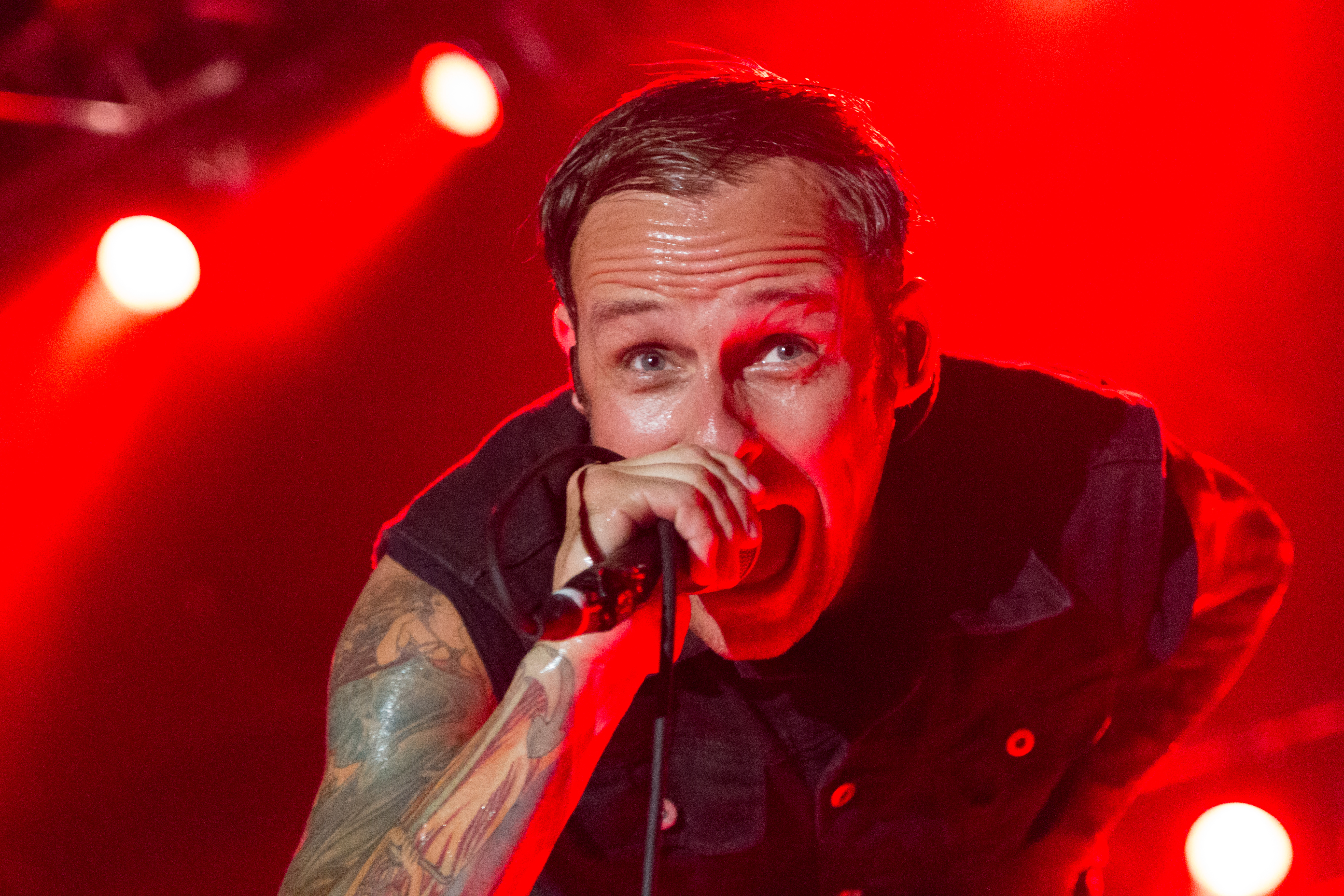 Ingo Knollmann, singer of Donots, performing at the ZMF Freiburg on July 3rd, 2015.